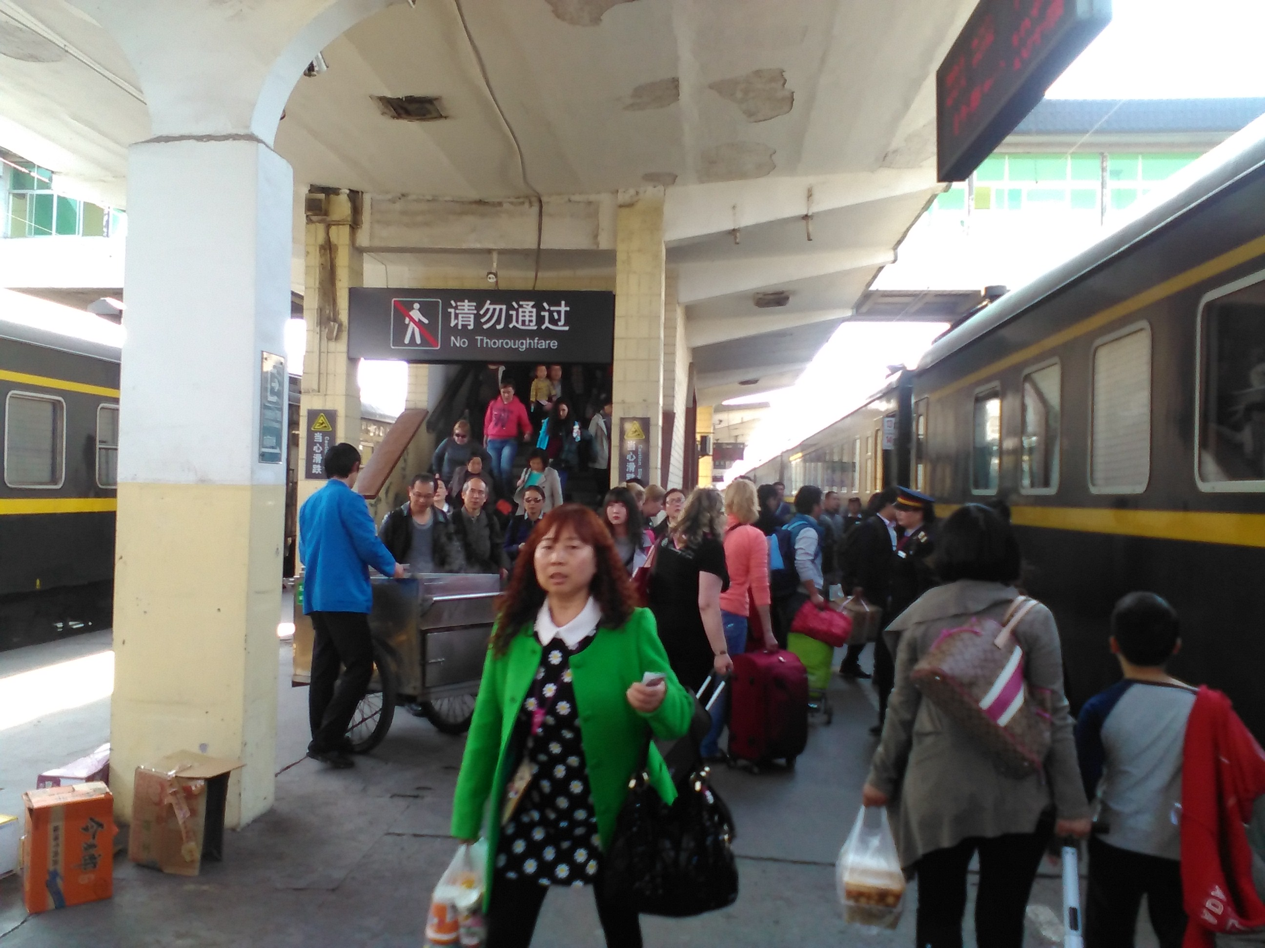 Platform 3 of Xi'an Railway Station 中文（中国大陆）: 西安站3站台的人潮